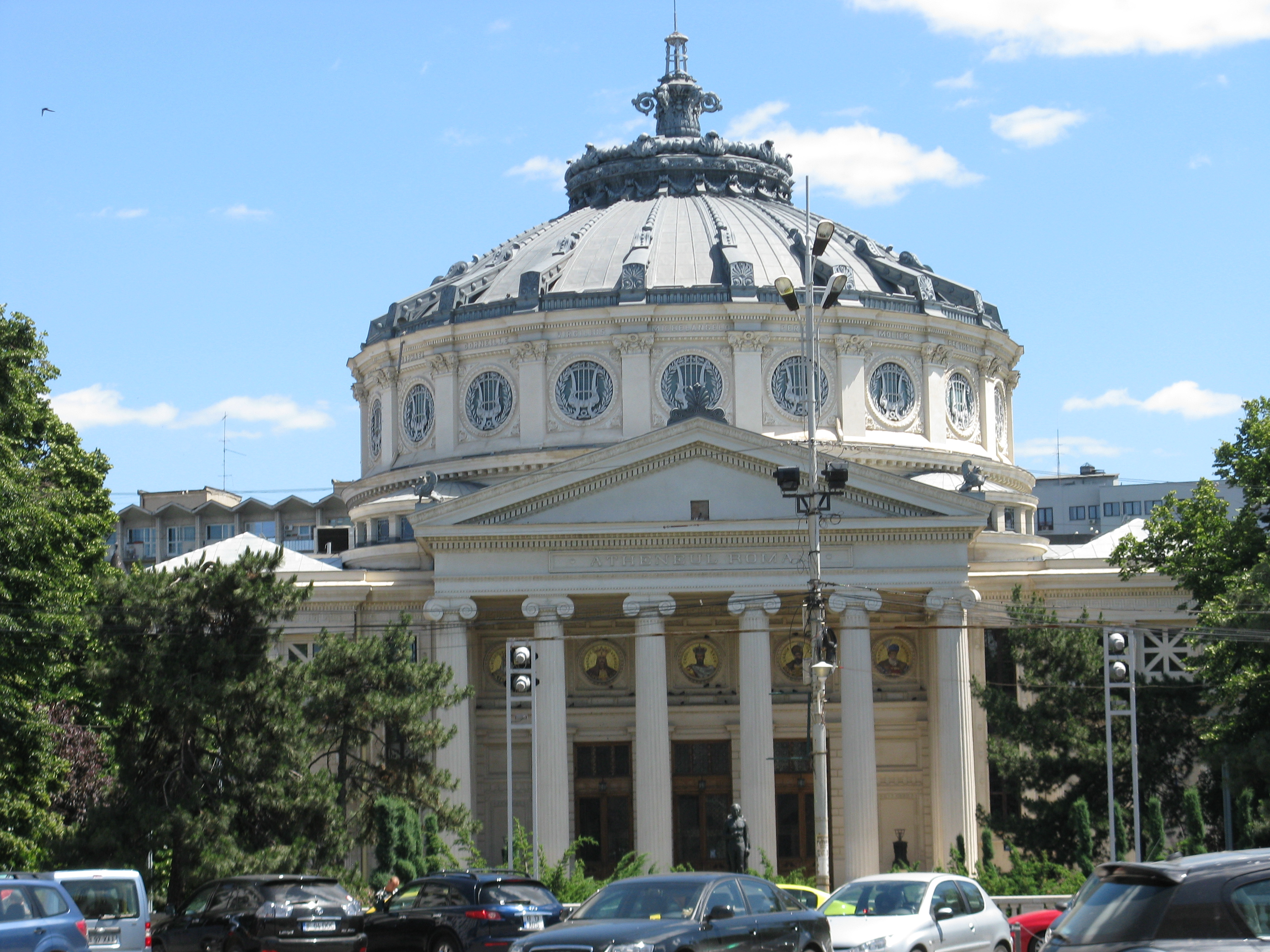 Ateneul Român